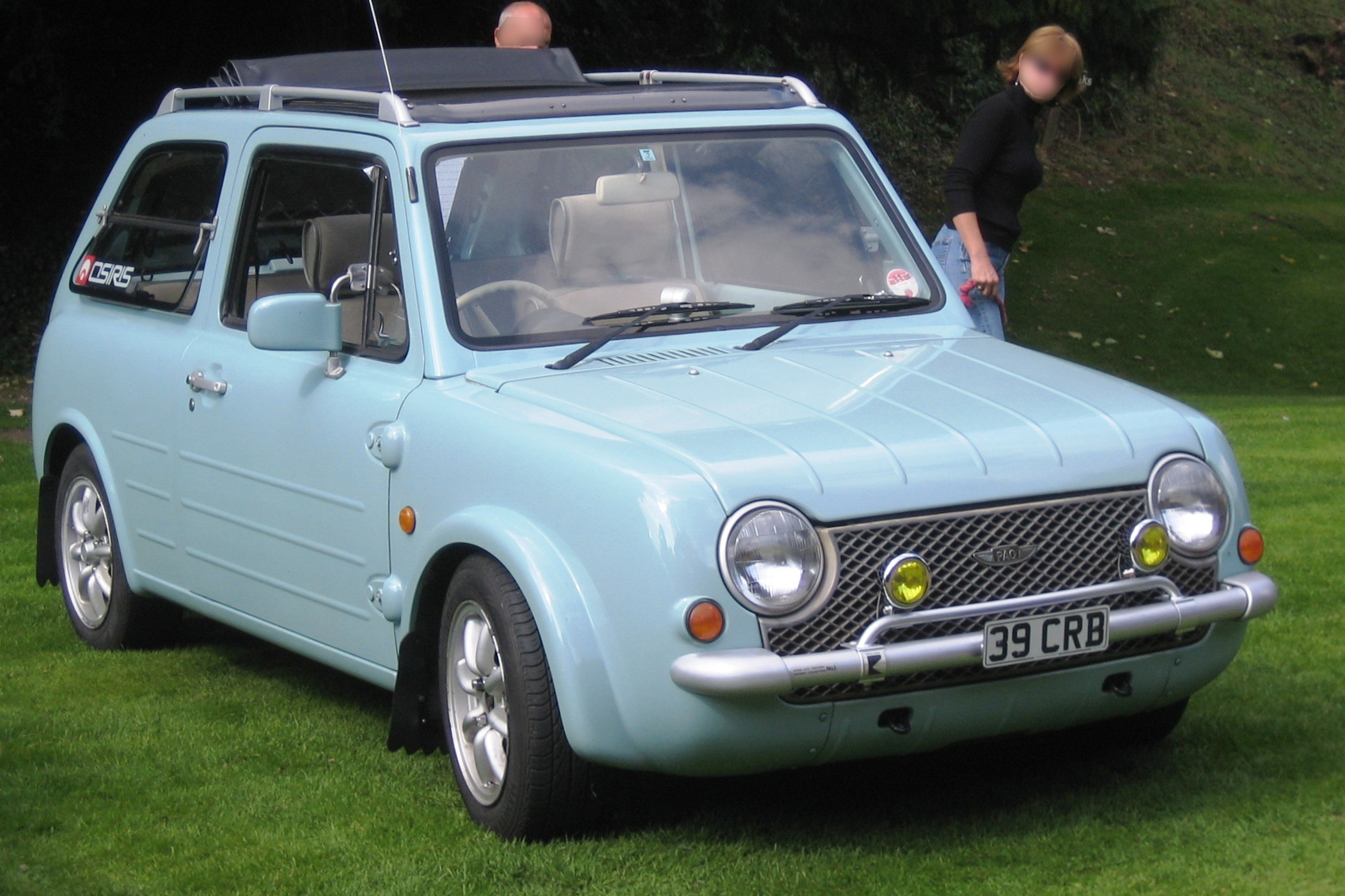 Nissan Pao (retro Nissan Kai-car before retro became so fashionable)